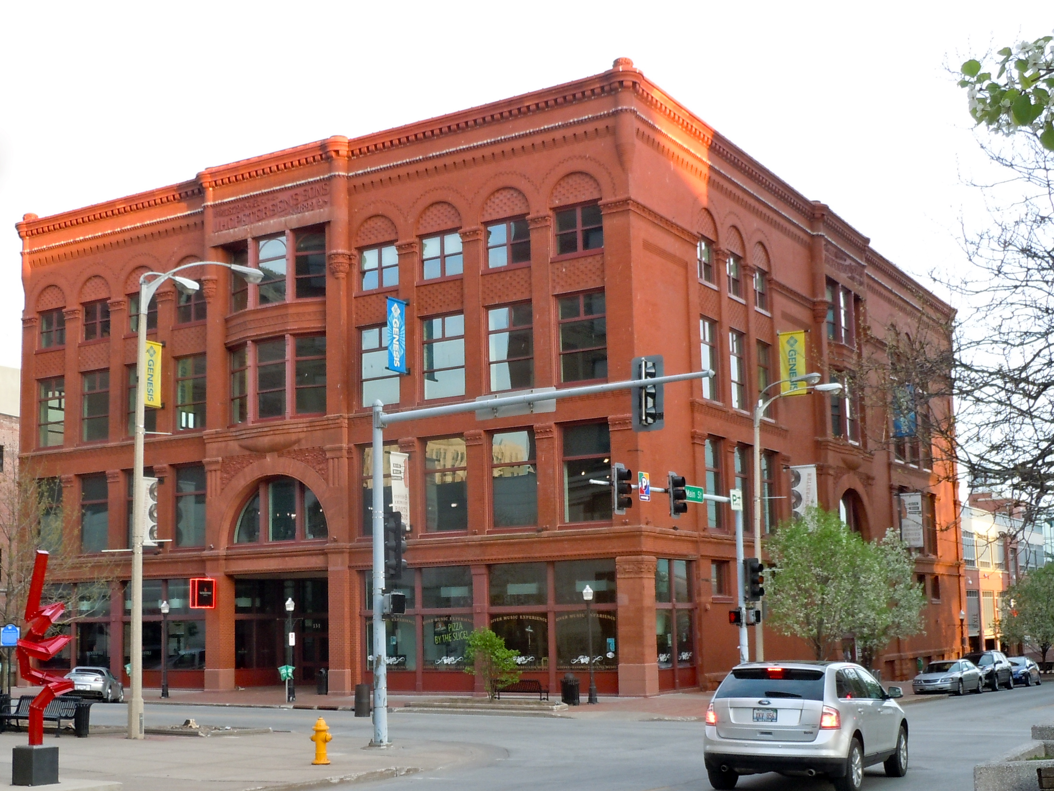 J.H.C. Petersen's Sons' Store on the NRHP since July 7, 1983. At 123-131 W. 2nd St. Davenport, Scott County, Iowa. Former department store building built in the Romanesque Revival style in 1892. The structure continues to serve as a commercial building and performing arts venue. The building was designed by Fredrick G. Clausen. Beautiful red colored building.